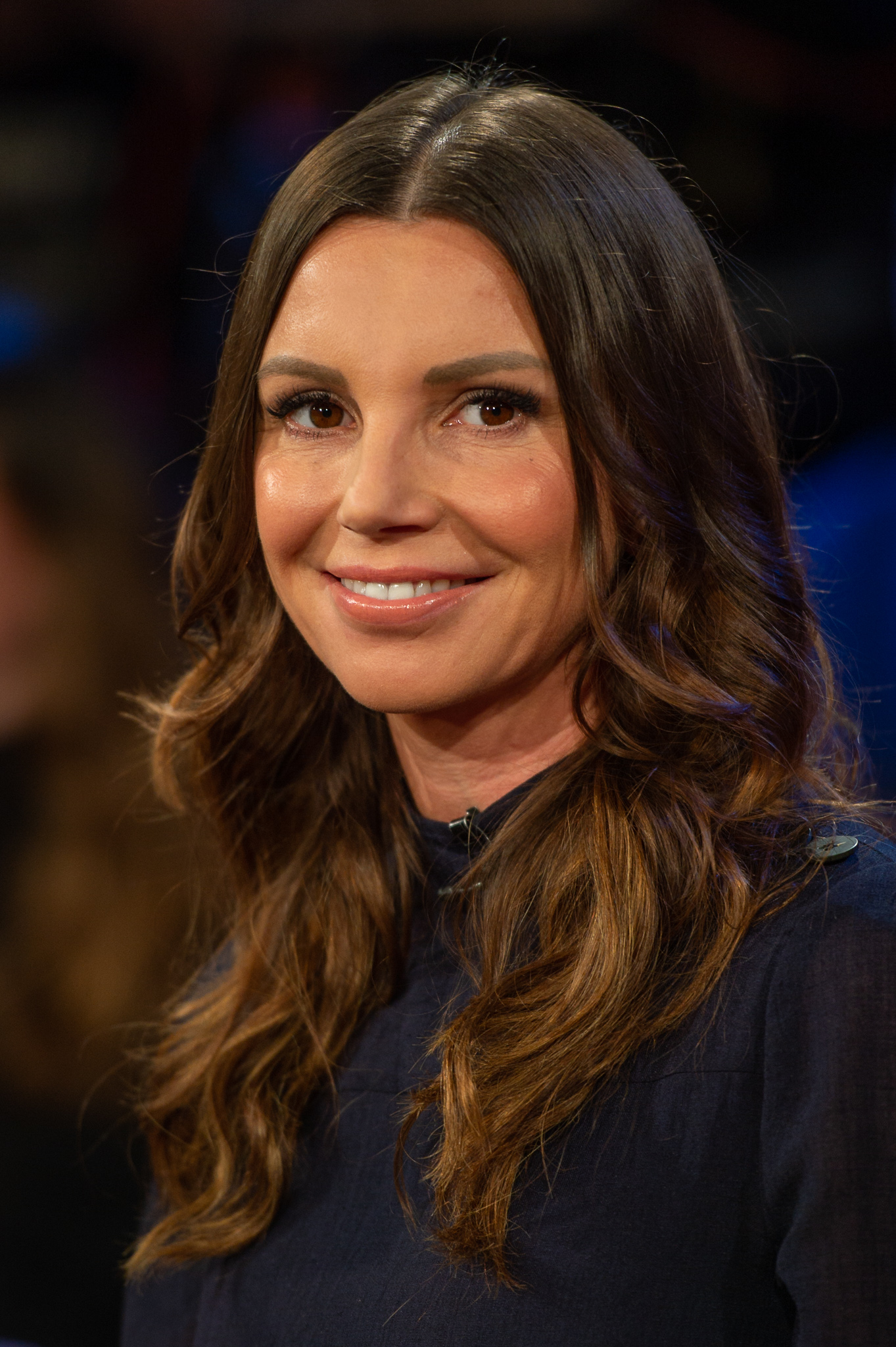 Live on tape,NDR Talk Show,Teresa Enke